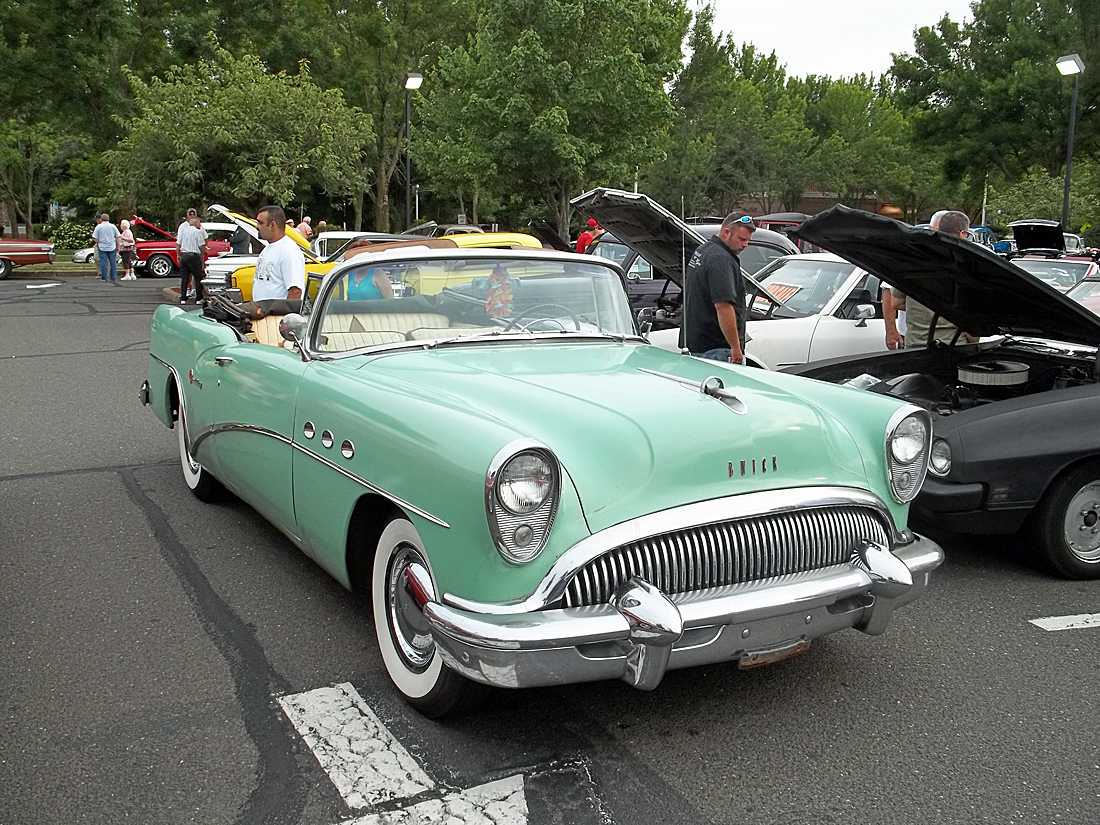 I went to a local cruise night tonight and took a few pics for you all. this car is all original.